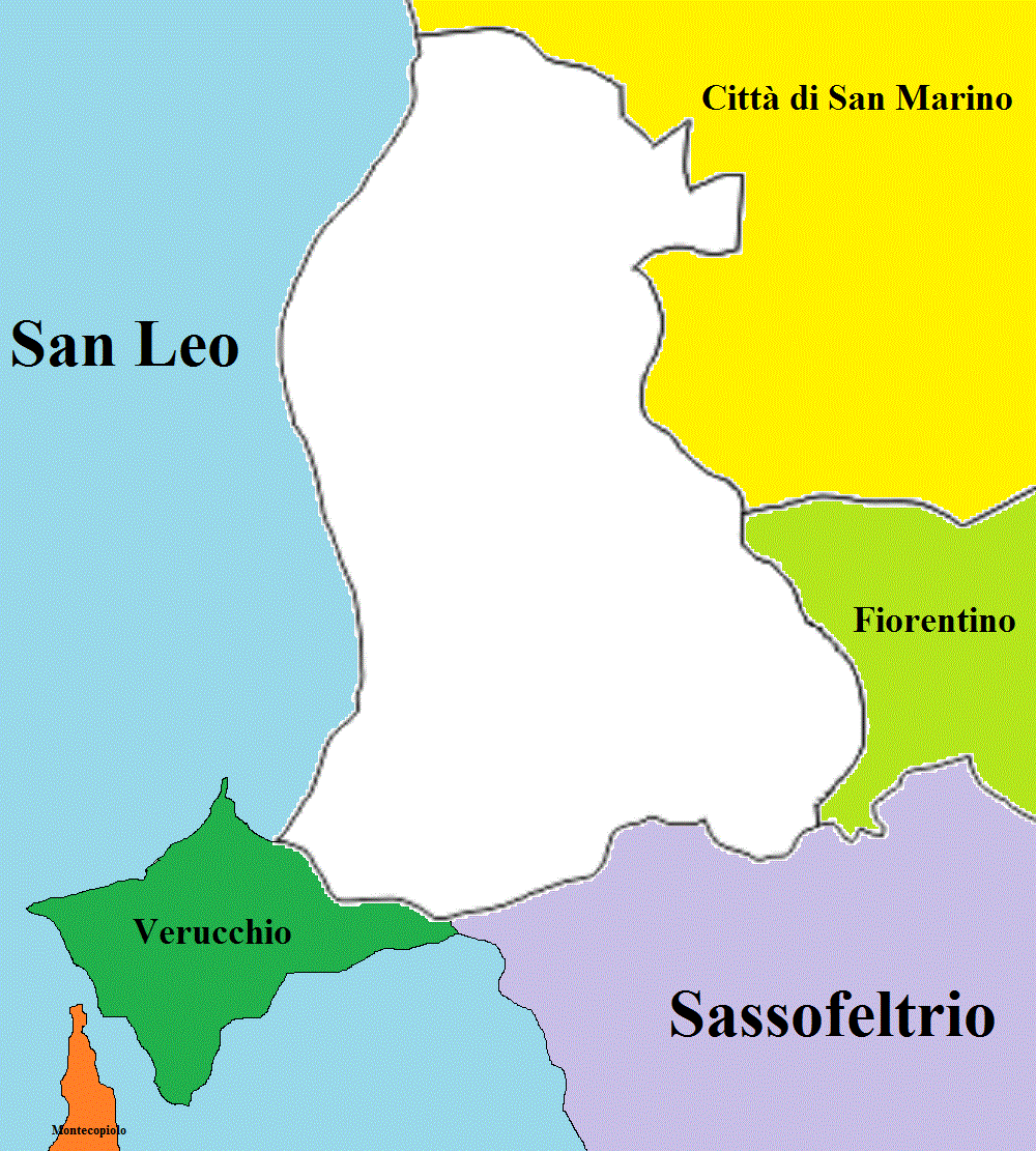 Map of Chiesanuova (San Marino)